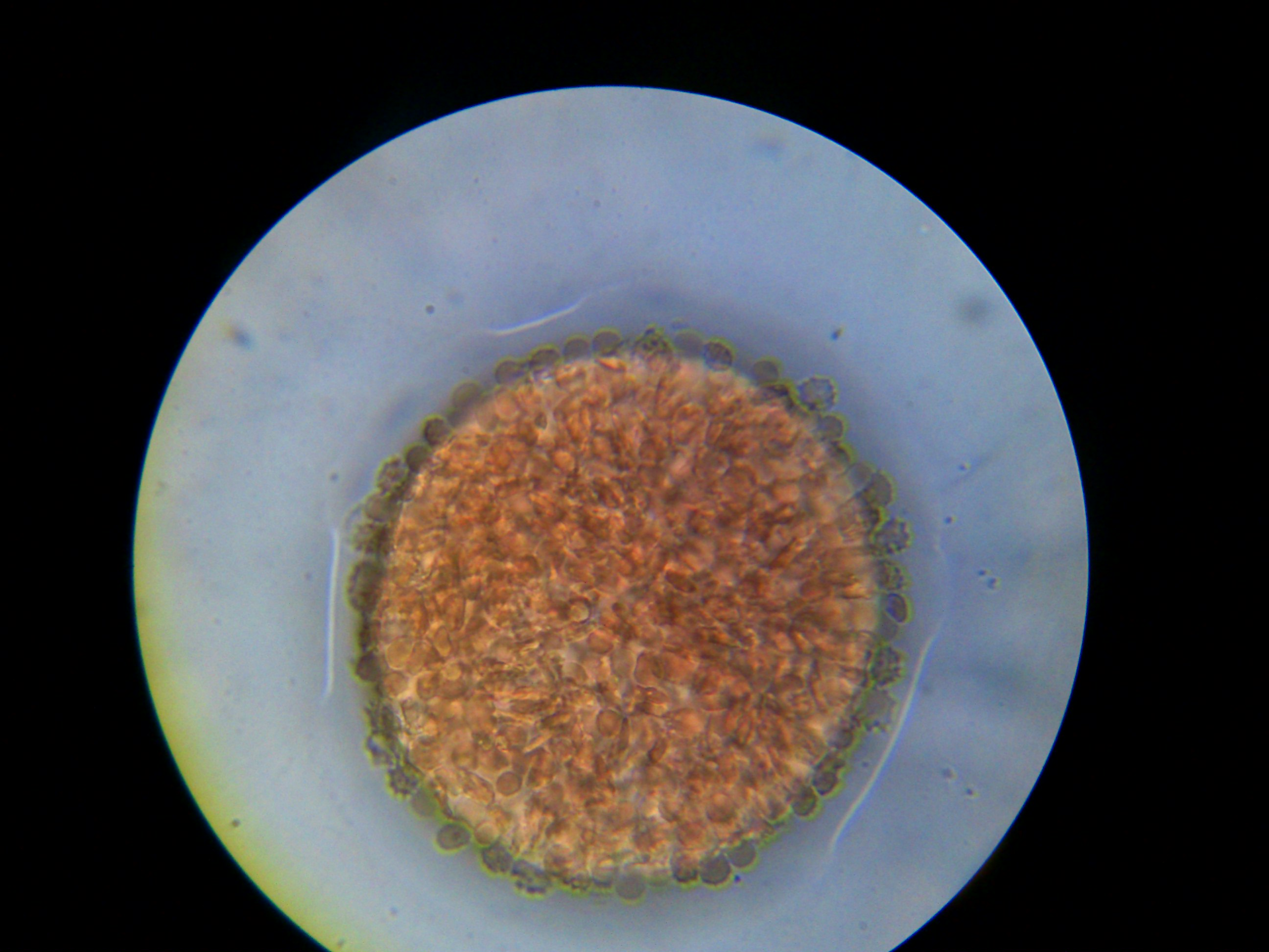 A proerythroblast